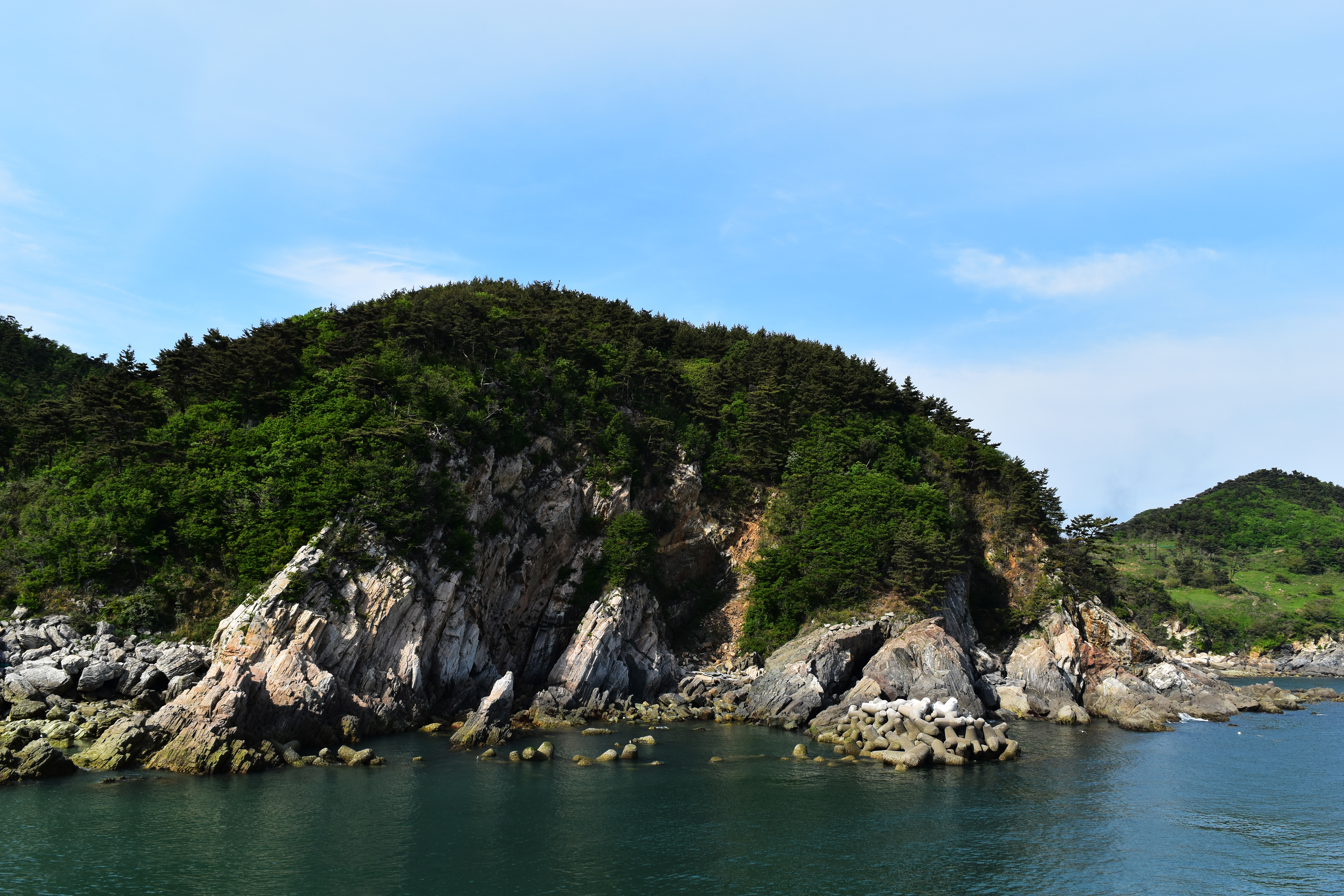 A cliff of Gauido to show geographic charaters of Taean Natural monument